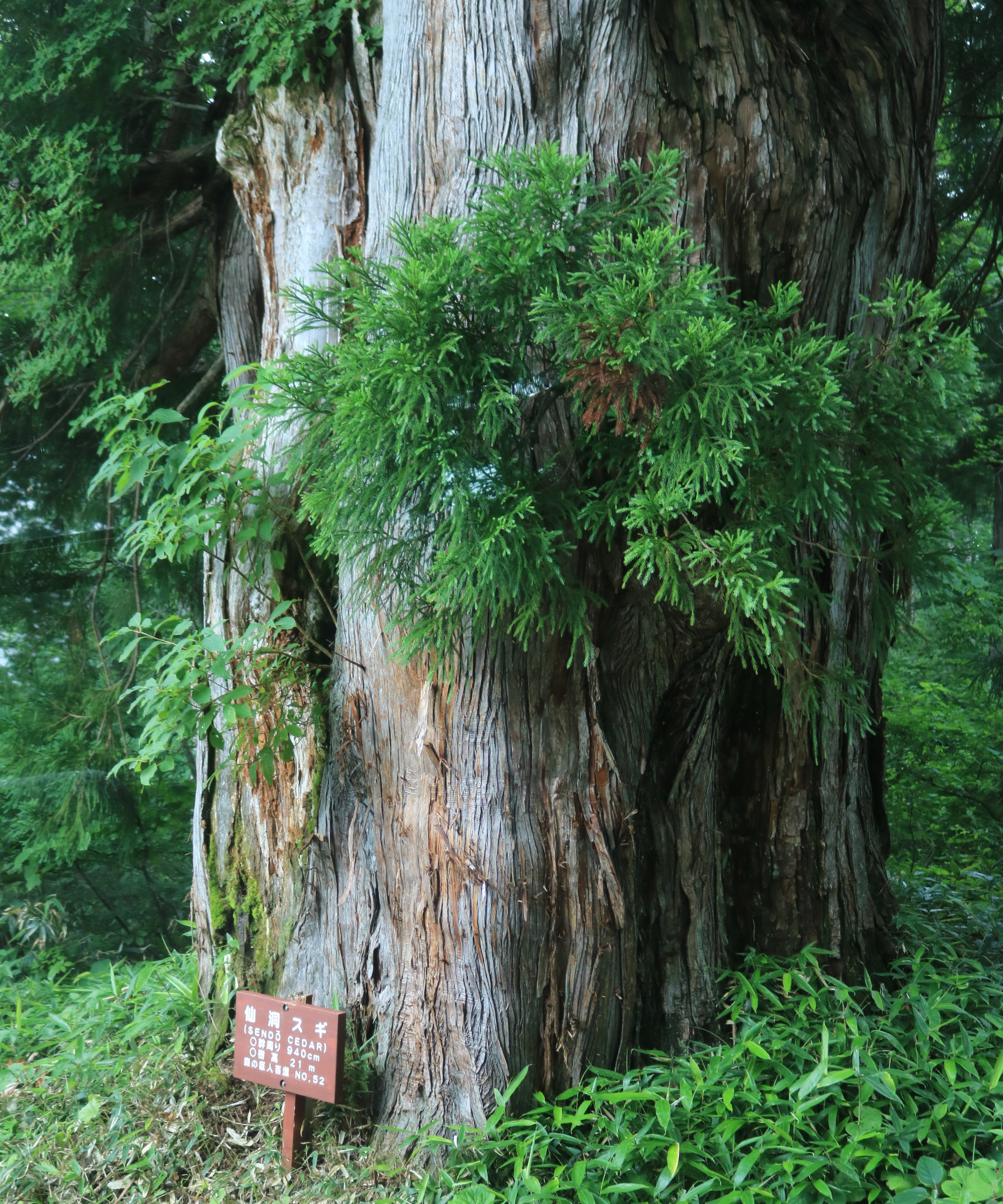 Sendo Sugi Cryptomeria japonica seen from Tateyama Highland Bus in Tateyama, Toyama prefecture, Japan.